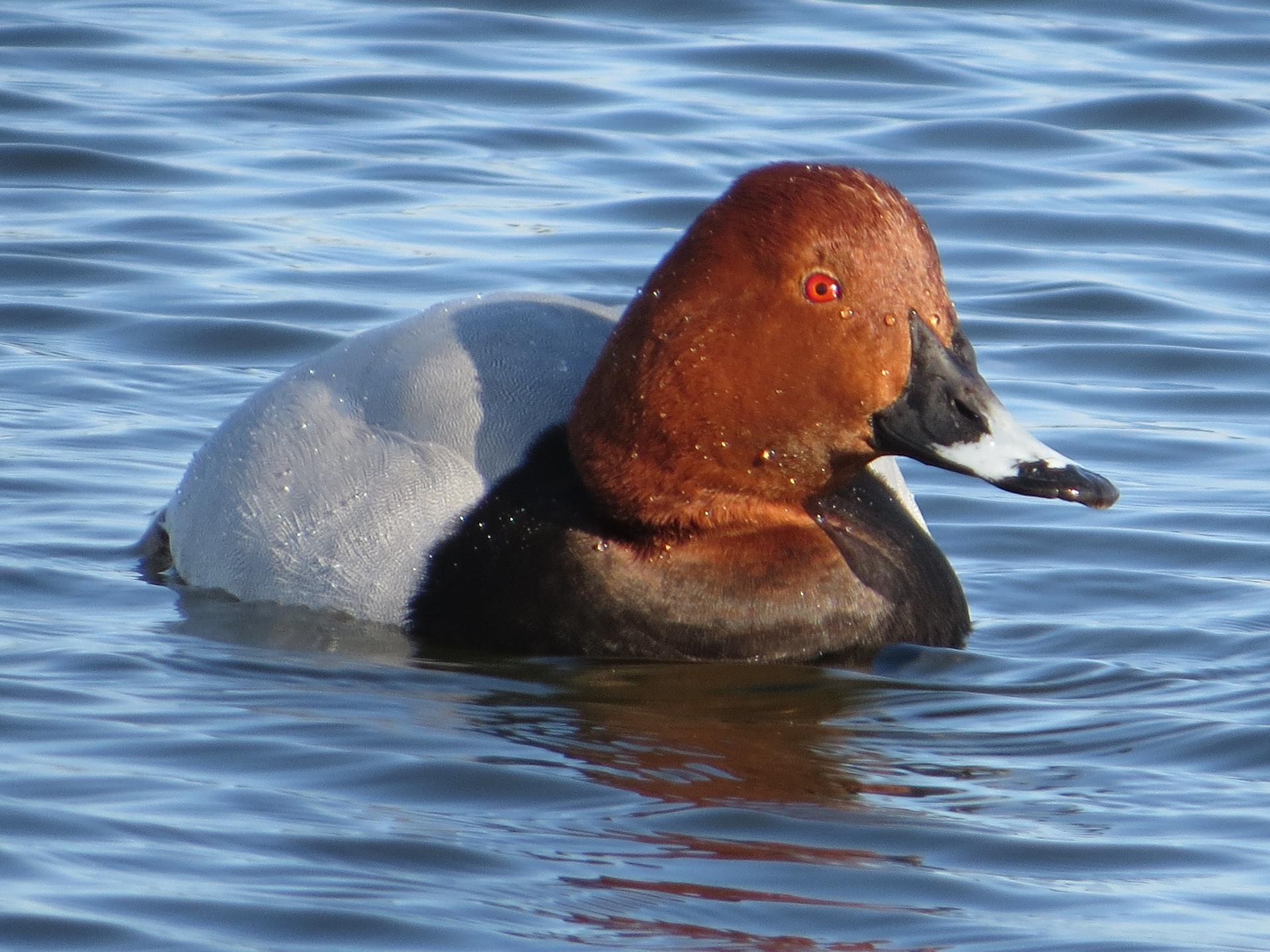 Common Pochard (Aythya ferina (Linnaeus, 1758) ), male, in Mie prefecture, Japan.